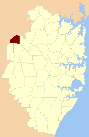 original location of the parish within Cumberland County, New South Wales (Sydney area)